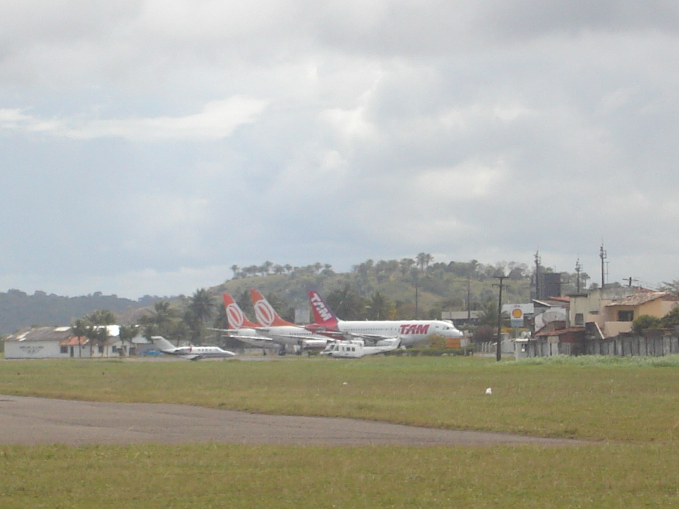 Aircraft parking of the Ilhéus Jorge Amado Airport.